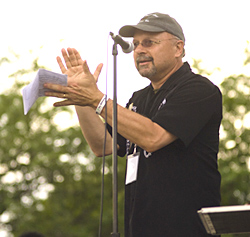 Bau Graves speaks at the 2009 Chicago Folk & Roots Festival.